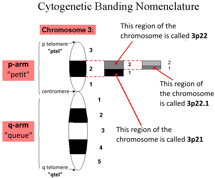 Cytogenetic Banding Nomenclature. Each human chromosome has a short arm ("p" for "petit") and long arm ("q" for "queue"), separated by a centromere. The ends of the chromosome are called telomeres. Each chromosome arm is divided into regions, or cytogenetic bands, that can be seen using a microscope and special stains. The cytogenetic bands are labeled p1, p2, p3, q1, q2, q3, etc., counting from the centromere out toward the telomeres. At higher resolutions, sub-bands can be seen within the bands. The sub-bands are also numbered from the centromere out toward the telomere. For example, the cytogenetic map location of the CFTR gene is 7q31.2, which indicates it is on chromosome 7, q arm, band 3, sub-band 1, and sub-sub-band 2. The ends of the chromosomes are labeled ptel and qtel. For example, the notation 7qtel refers to the end of the long arm of chromosome 7.